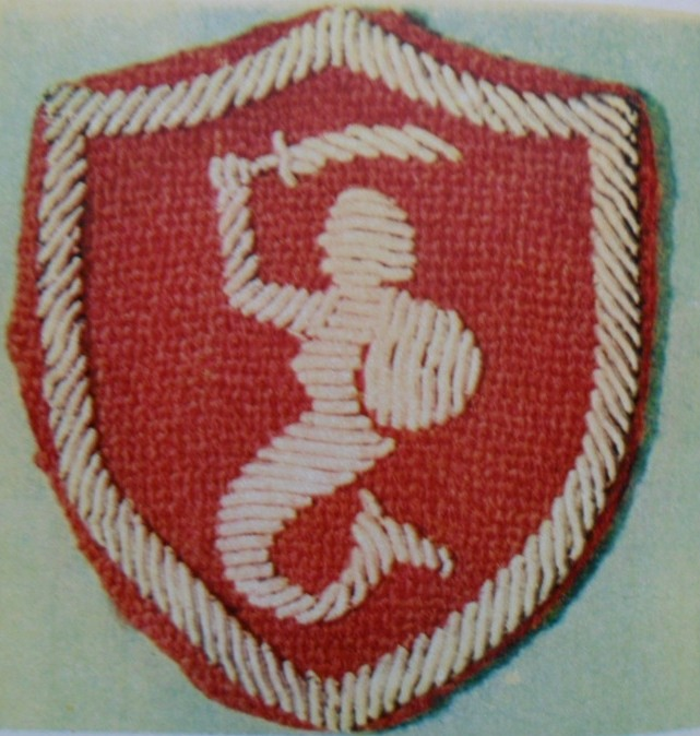 Badge of the 2nd Polish Corps Exploratory